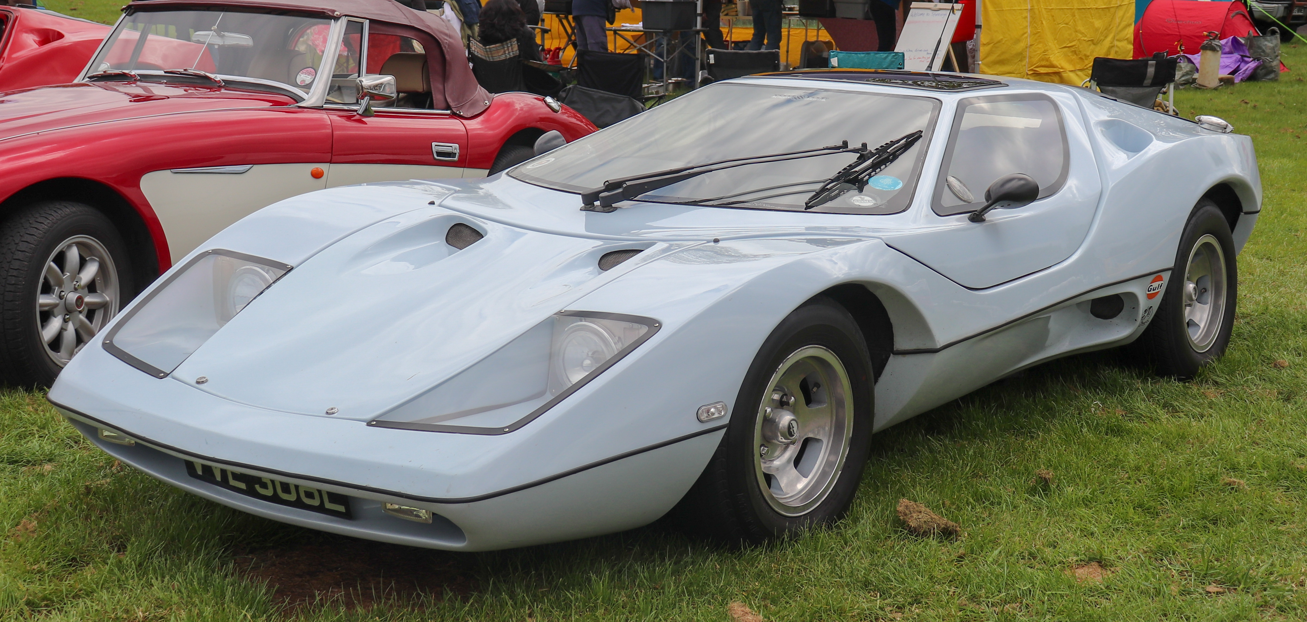 1972 (Donor) Nova 1.6 Front Taken at the Stoneleigh National Kit Car Motor Show 2019